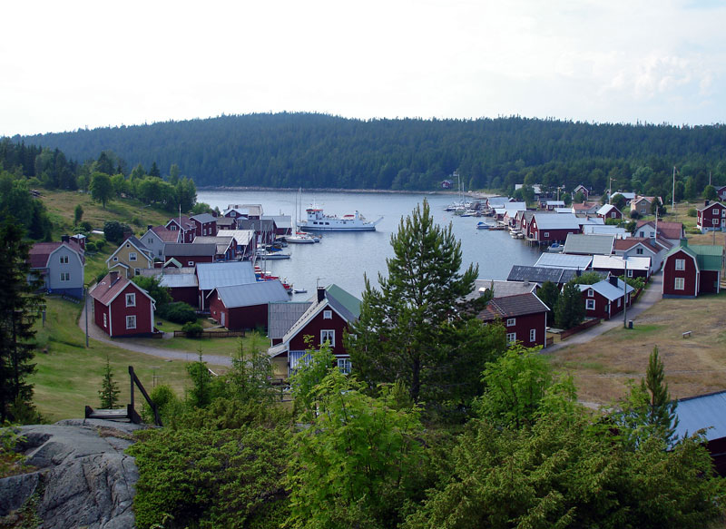 Fishing harbour Trysunda in Örnsköldsvik municipality, Sweden